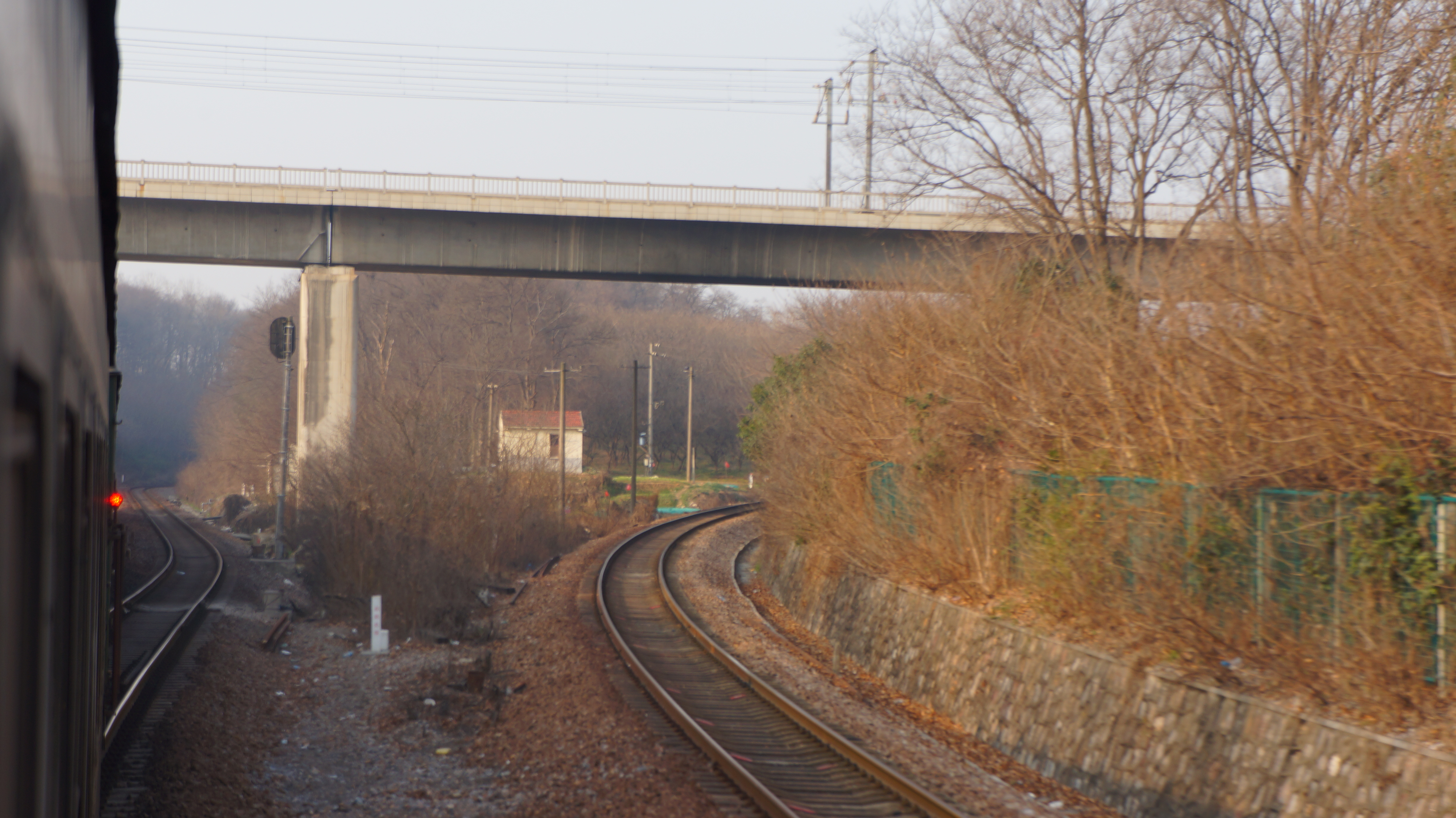 The right line is bound for Nanjingdong Railway Station, left one is bound for Nanjing Railway Station. The Shanghai-Nanjing Intercity High-Speed Railway flies over.